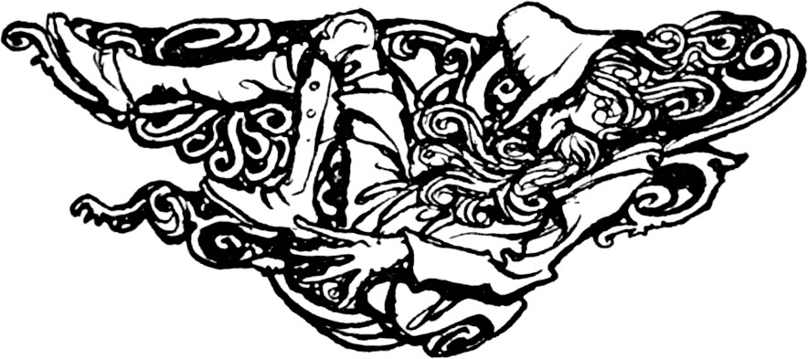 Image from Rip Van Winkle